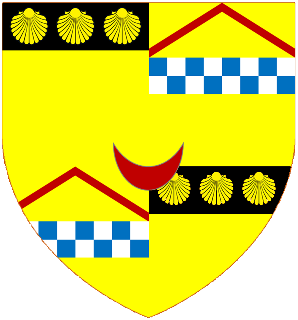 Shield of arms of The Viscount Preston